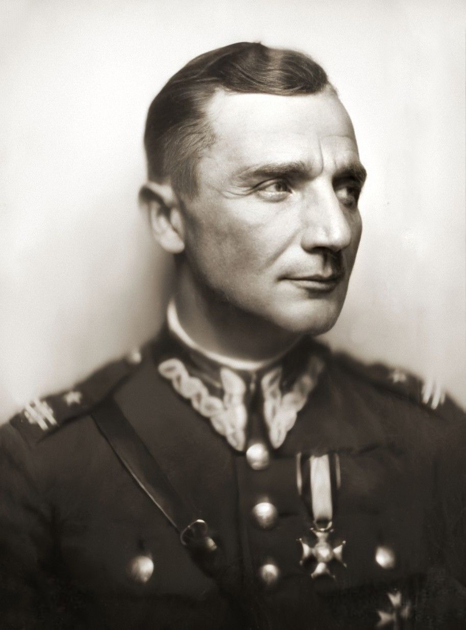 Henryk Dobrzański (1897-1940). Polish soldier, sportsman and partisan. He was the first guerrilla commander of the Second World War in Europe.